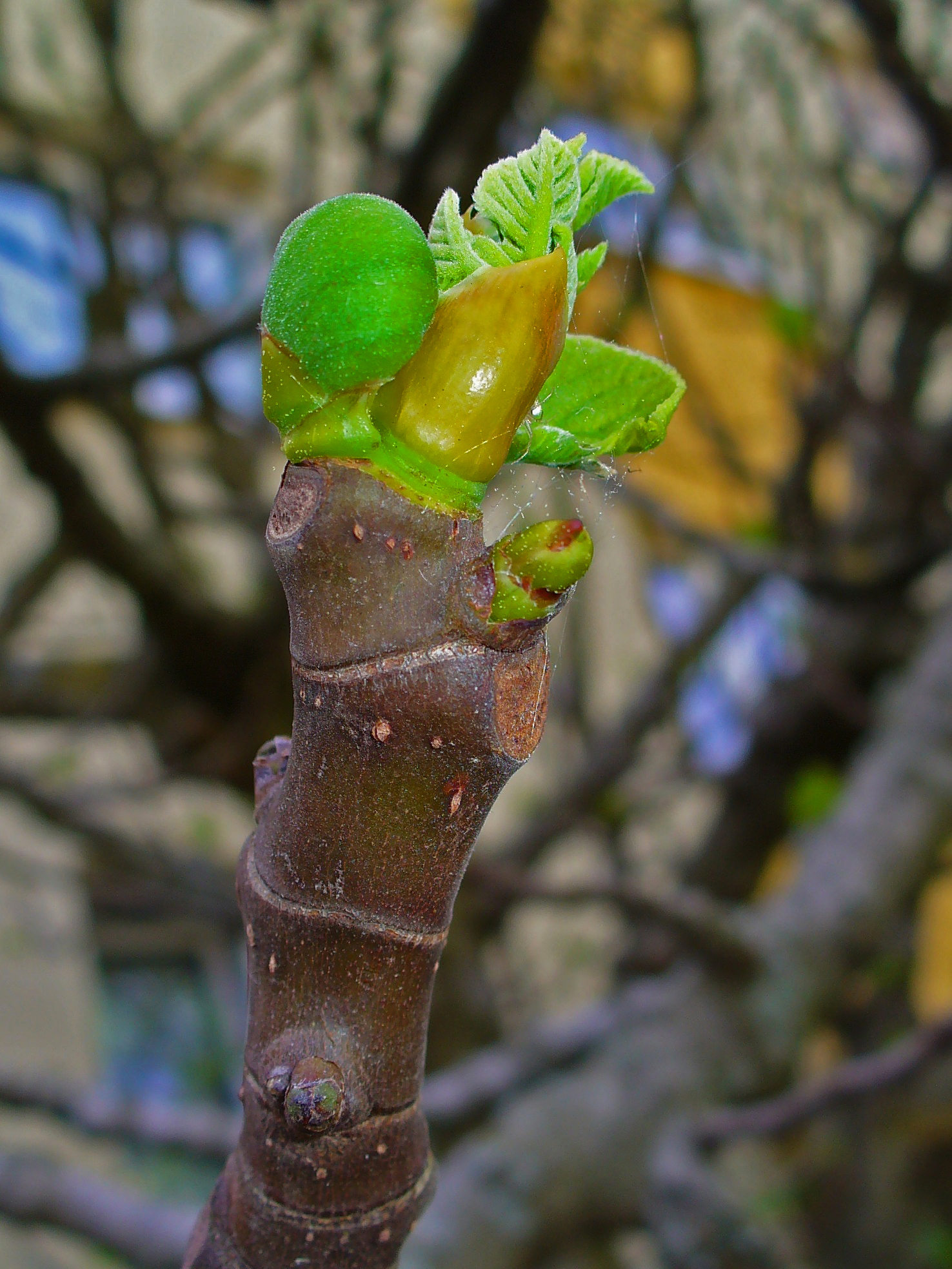 Ficus carica, Moraceae, Common Fig, developing inflorescence (left), buds (middle, right); Karlsruhe, Germany. The leaves are used in homeopathy as remedy: Ficus carica (Fic-c.)